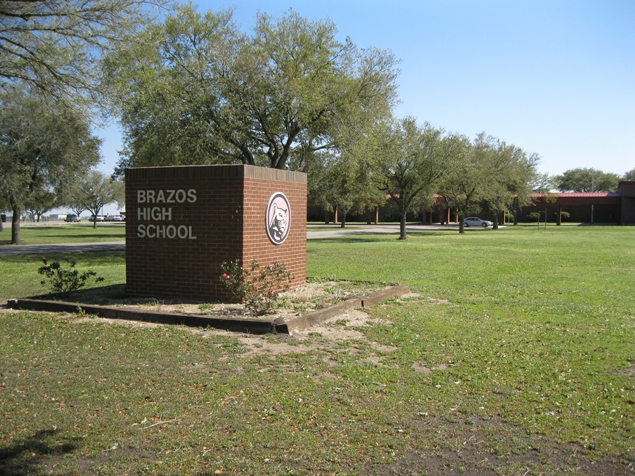 Photo shows Brazos High School on State Highway 36 southeast of Wallis, Texas. View is generally south.